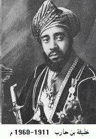 sultan Khalifa bin Hareb of zazibar, he ruled between 1911 - 1960